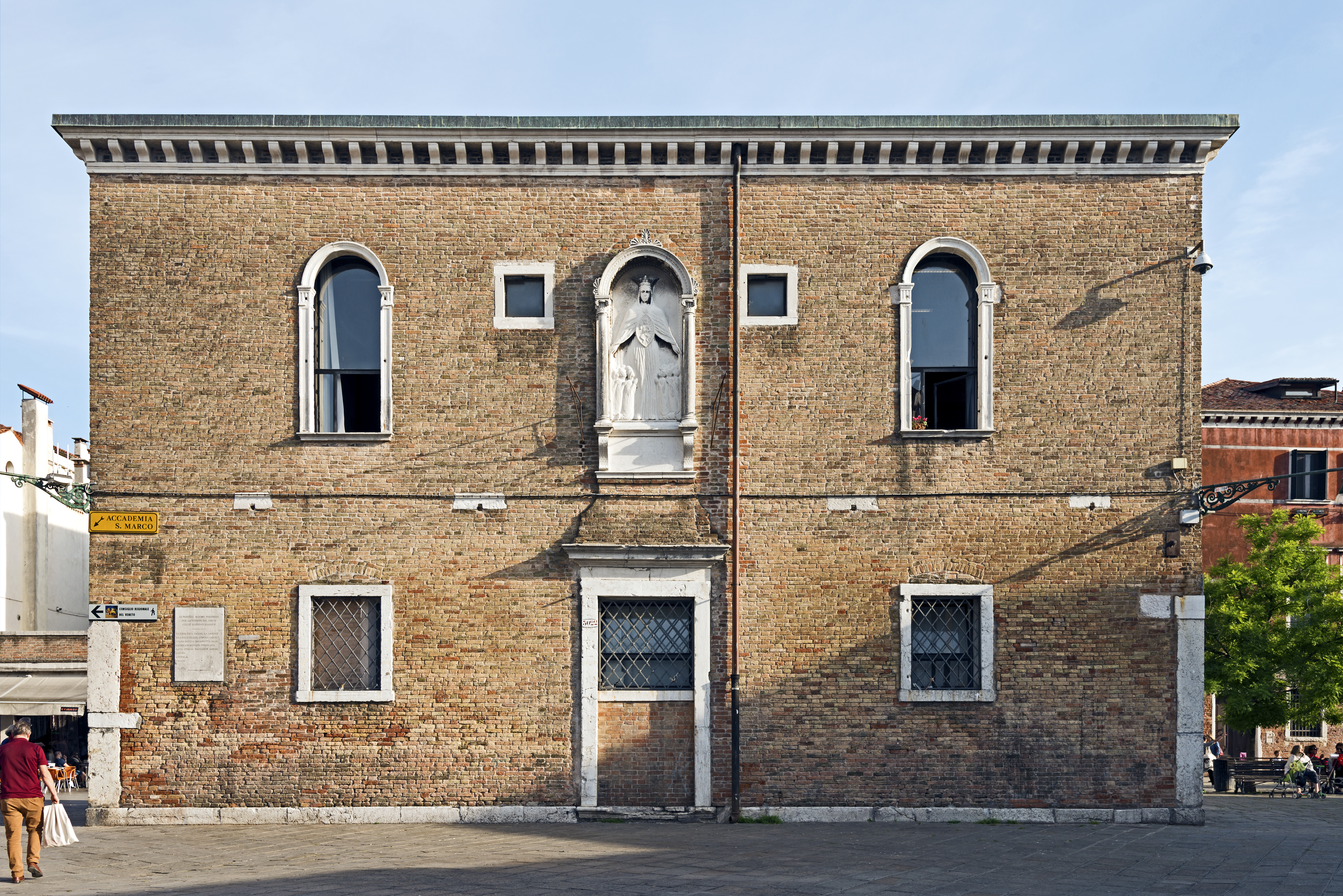 The Scola dei varoteri in Campo Santa Margherita Venice. It was the seat of the confraternity of tanners (Varoteri in Venetian), founded in 1311.